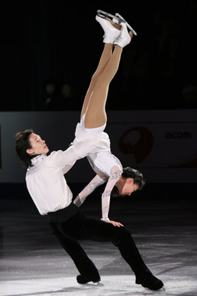 Pairs team Pang Qing & Tong Jian (CHN) perform an ice dancing lift during their exhibition program at the 2008 Four Continents Figure Skating Championships. They won the gold medal at this event.